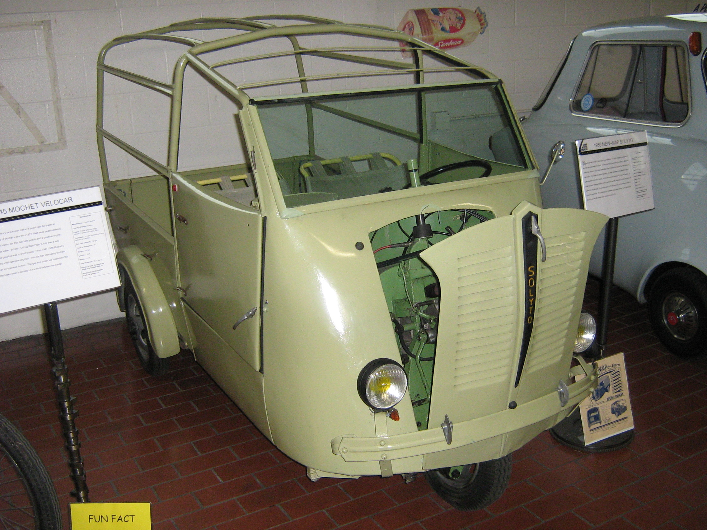 1959 New-Map Solyto